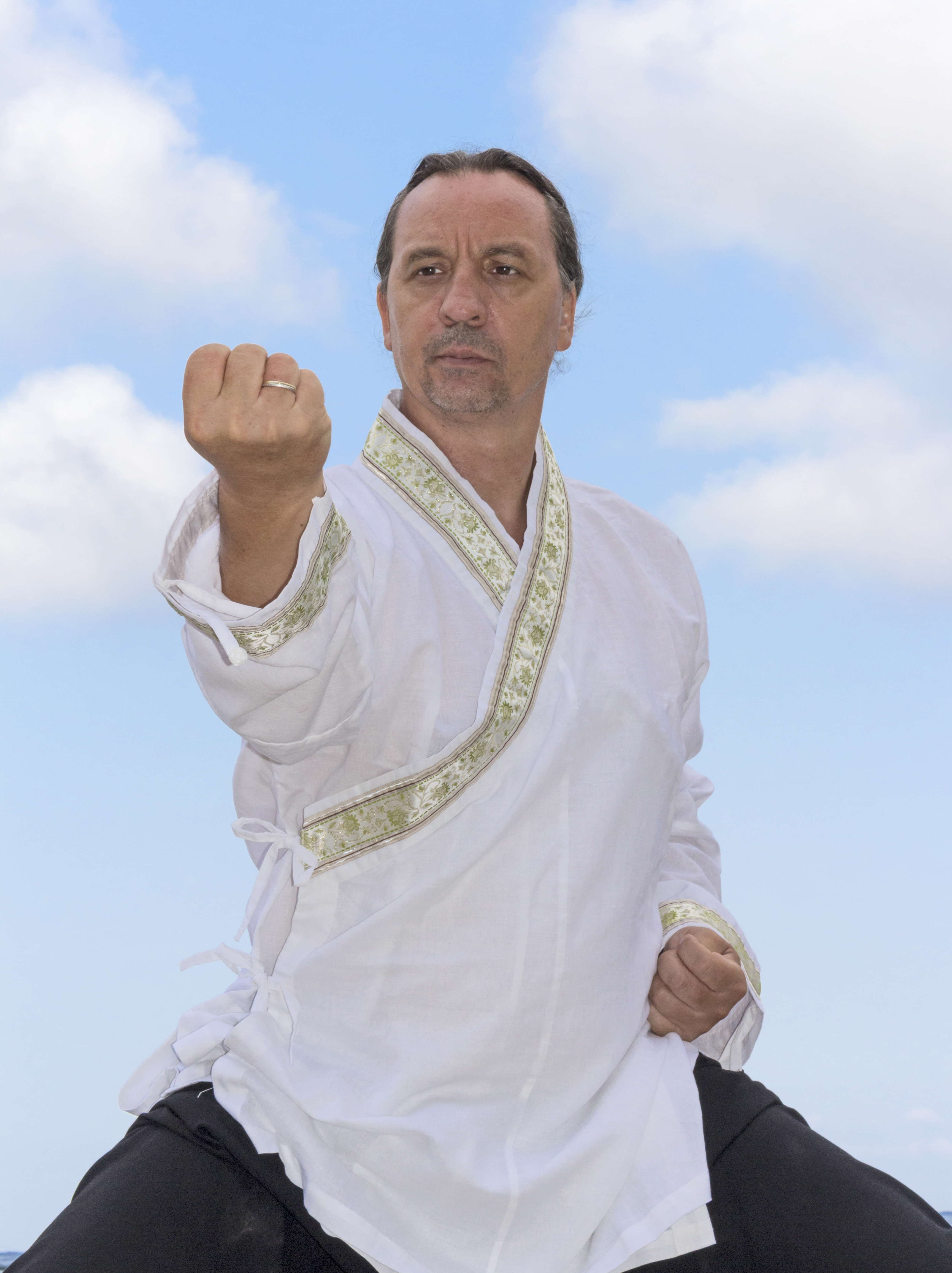 Photo of Panagiotis Kontaxakis in Amorgos, September 2015. The position is from the 7th exercise of Baduanjin ("Clench the fists and glare fiercely"). Photo by Spiros Doikas.